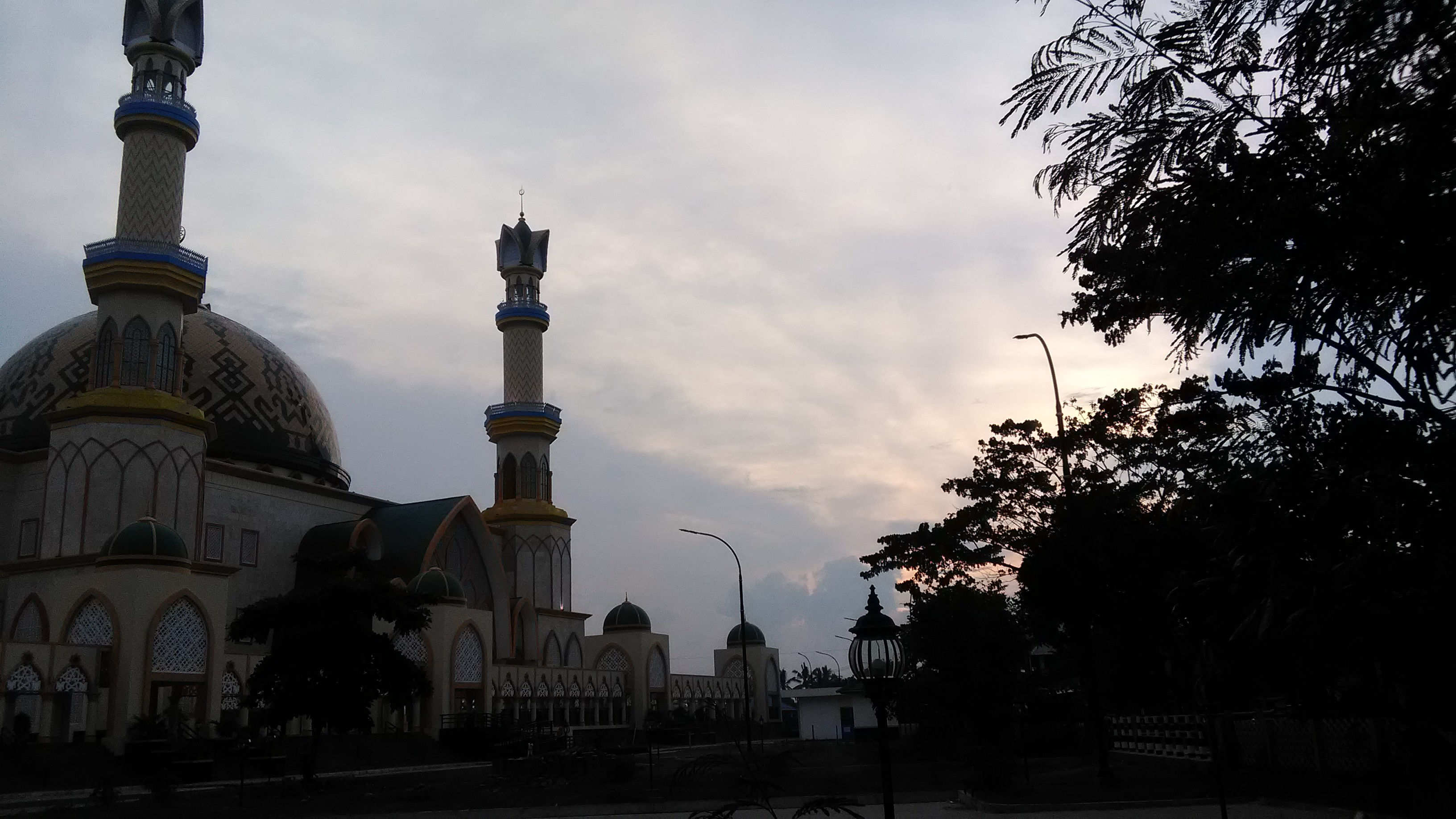 West side of Islamic center West Nusa Tenggra.